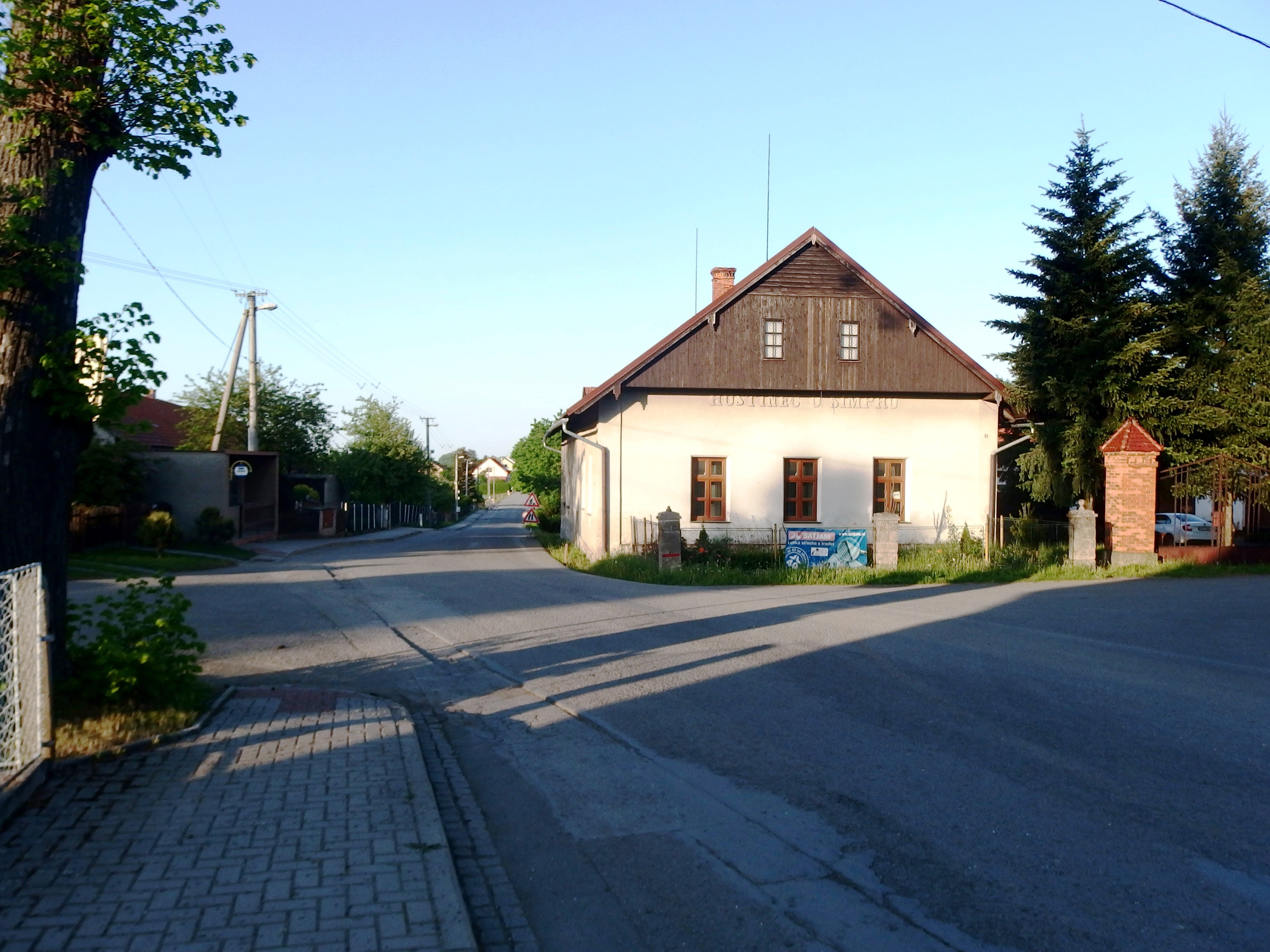 Příbor, Nový Jičín District, Czech Republic, part Prchalov.